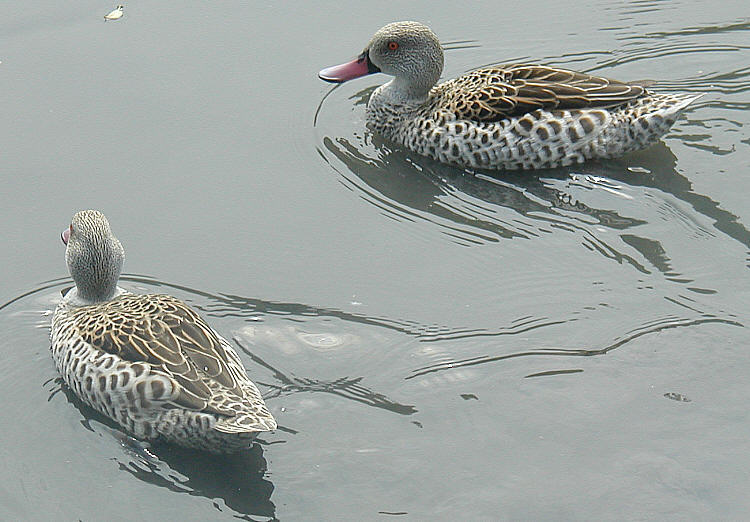 Cape Teal Anas capensis at Slimbridge Wildfowl and Wetlands Centre, Gloucestershire, England. Taken by Adrian Pingstone in June 2003 and released to the public domain. This work has been released into the public domain by its author, Arpingstone. This applies worldwide. In some countries this may not be legally possible; if so: Arpingstone grants anyone the right to use this work for any purpose, without any conditions, unless such conditions are required by law.